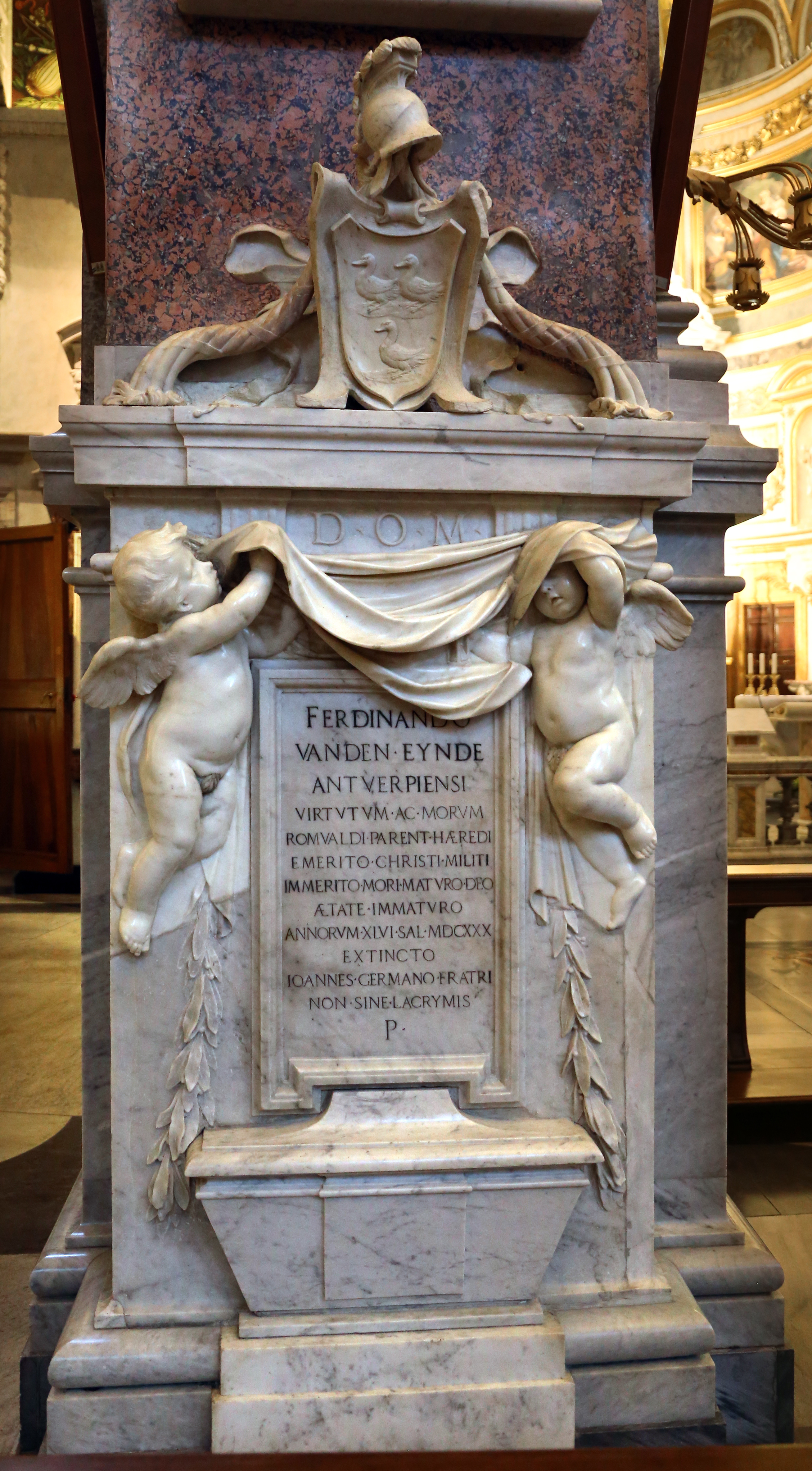 Santa Maria dell'Anima (Rome) - Interior